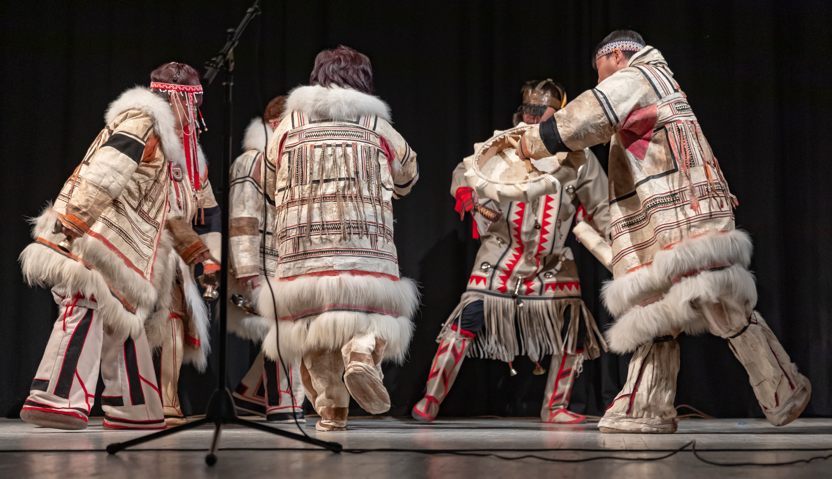 Nganasan Folklore Group in Helsinki. Нганасанская этно-фольклорная группа "Дентедиэ" The Nganasan nation is one of the oldest ethnicities of the Eurasian North. The Nganasan population in Russia today doesn't exceed 1,000 people, around 100 of whom live in the tundra and engage in hunting.